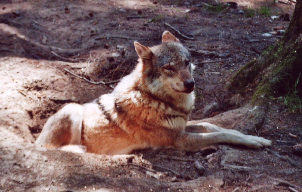 Wolf im Wildpark Poing